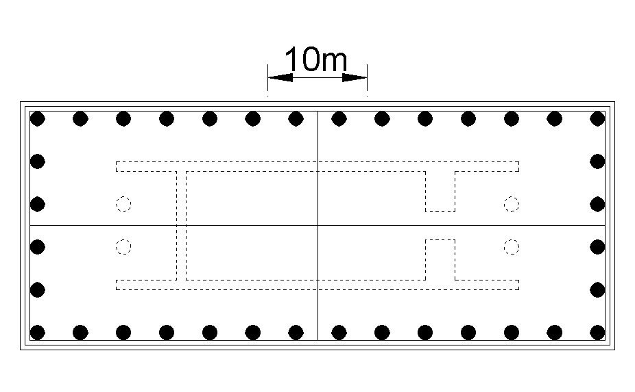 Segesta. Plan of the temple